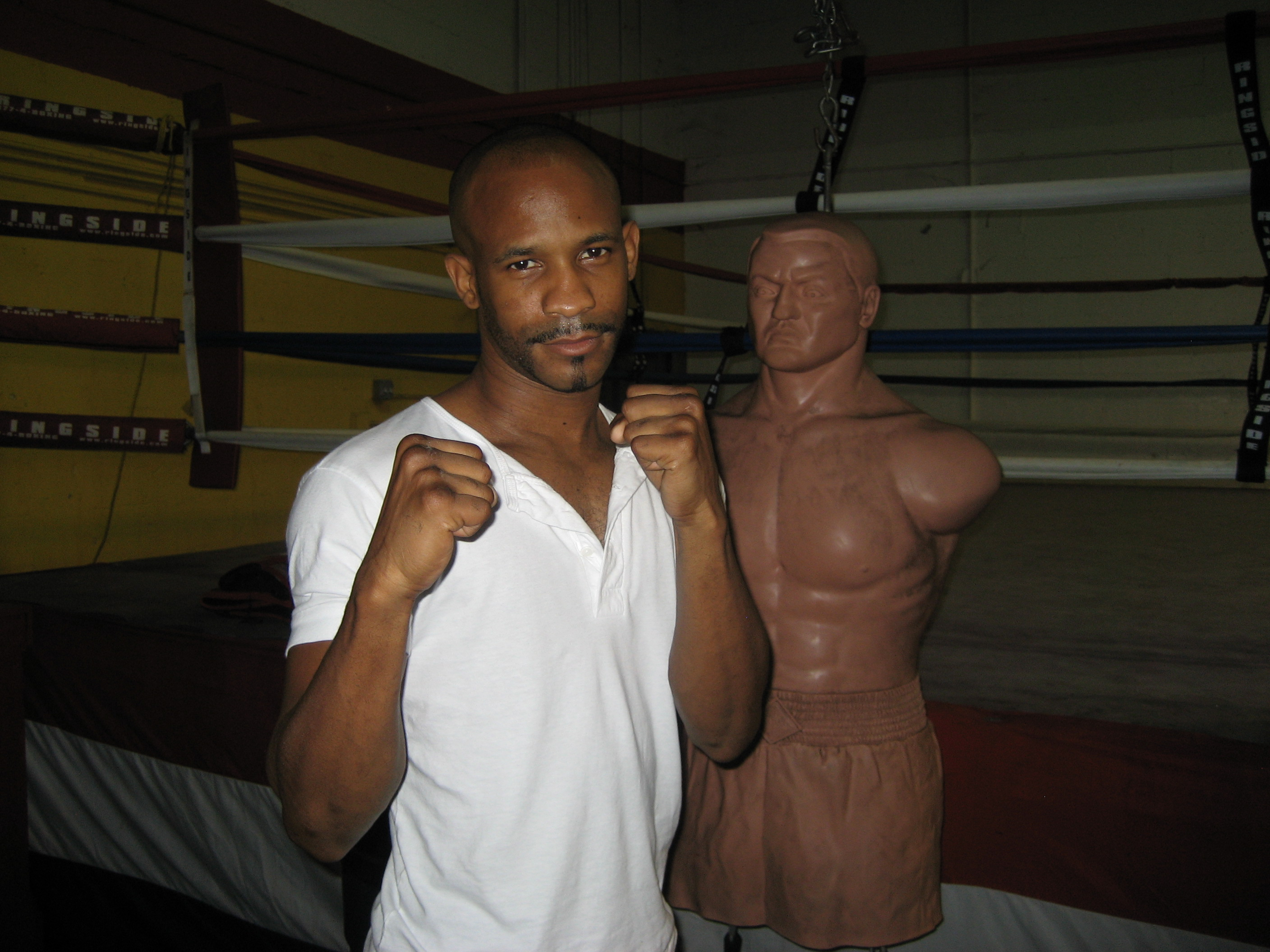 This picture was taken on April 5, 2008 by me.